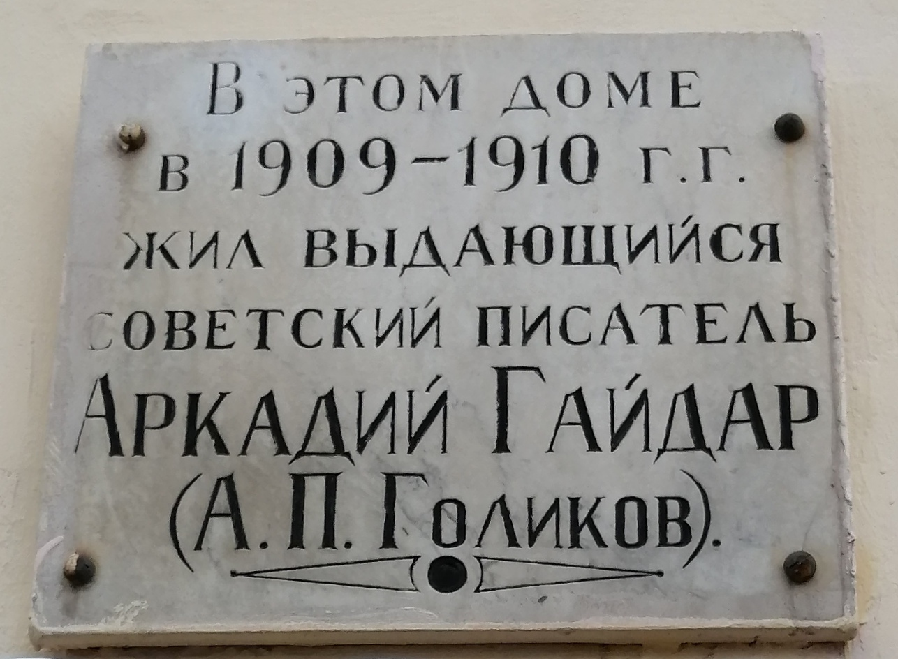 memorial plaque on the house where in 1909-10. lived Arkady Gaidar. Nizhny Novgorod 44 Varvarskaya street.